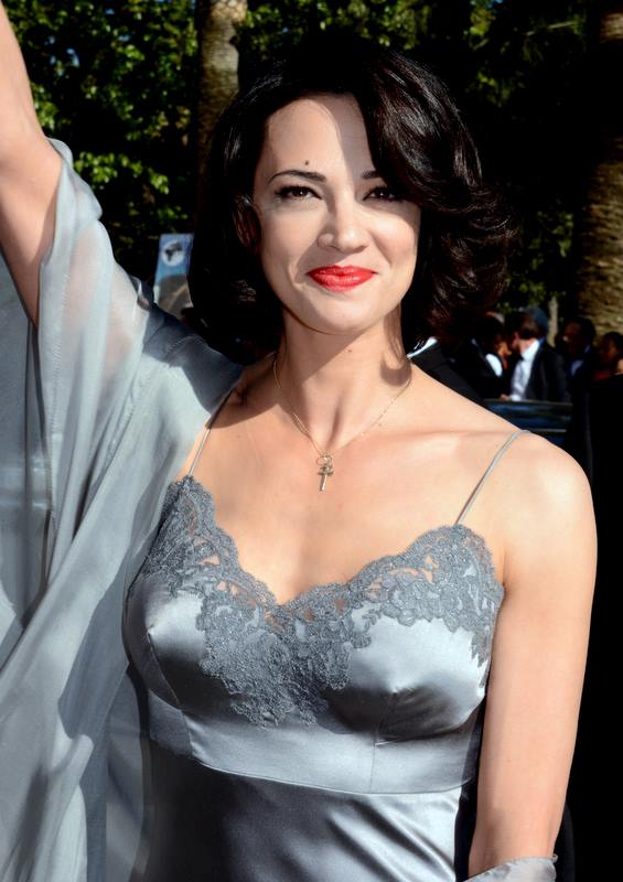 Asia Argento at the Cannes film festival